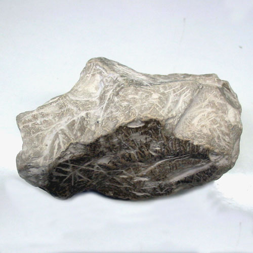 Kaolinite.